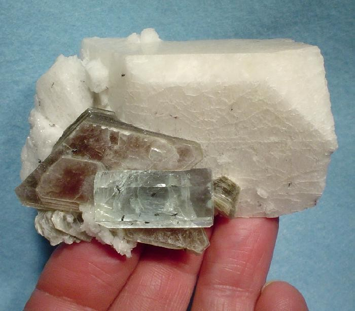 Beryl (Var.: Aquamarine), Muscovite, Albite Locality: Shigar Valley, Skardu District, Baltistan, Northern Areas, Pakistan (Locality at ) Size: 7.5 x 4.4 x 4.0 cm. A superb combination specimen from the Shigar Valley of Pakistan. A gem, 2.8 cm, doubly terminated aquamarine crystal is attached to the side of a sharp, pearlescent, mica book, which, in turn is attached to the side of a sharp and lustrous, snow-white albite crystal.